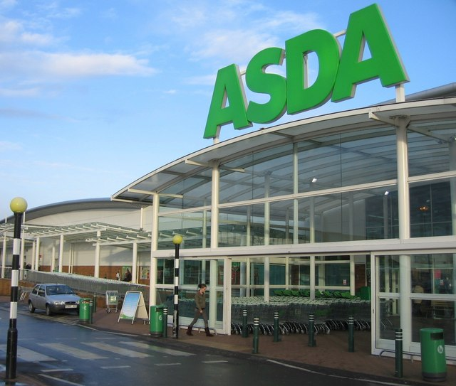 A big green sign